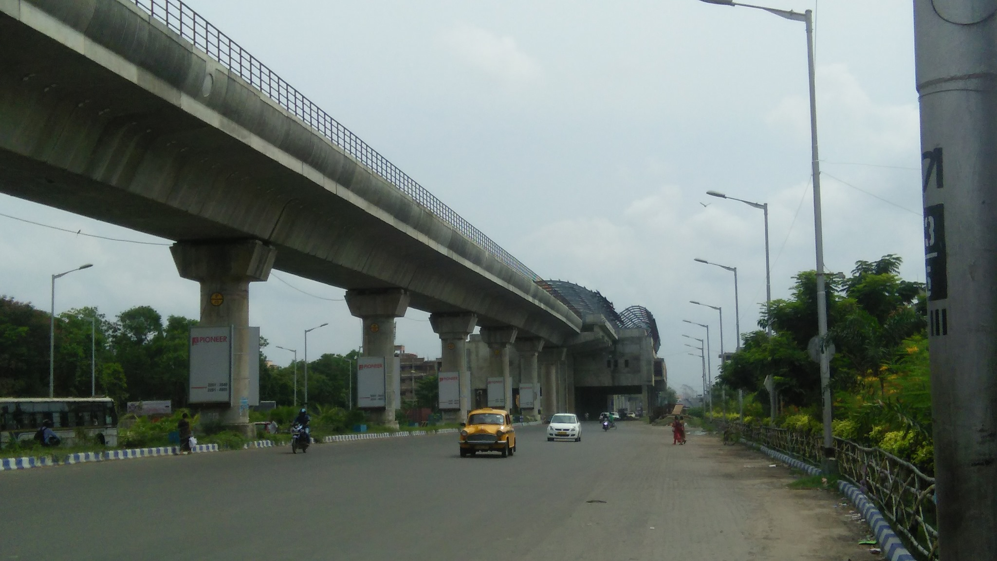 This is a image of Satyajit Ray metro station, under construction